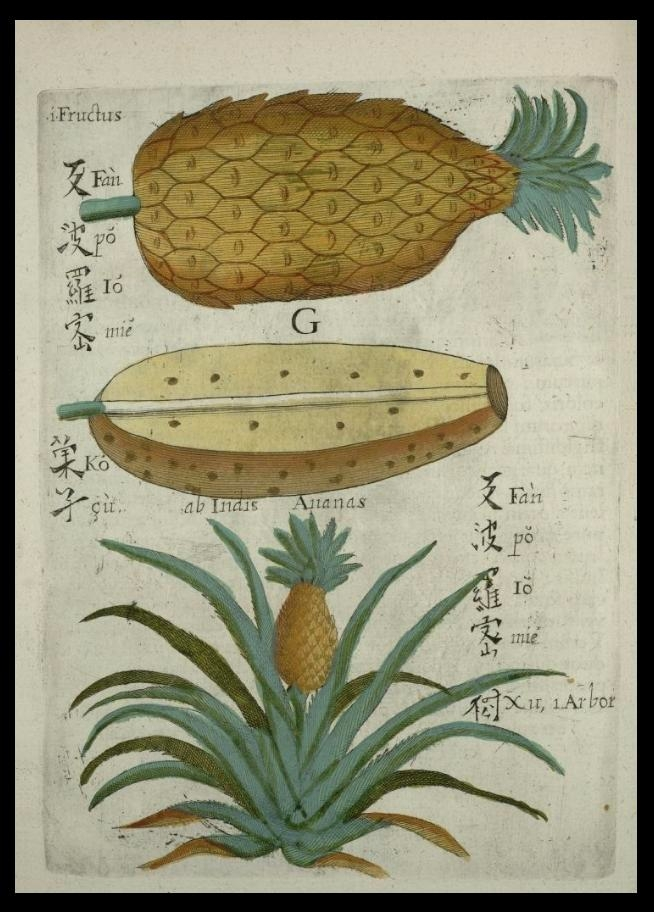 One of the earliest natural history books about China. Jesuit Missionary author. (obviously includes some non-Chinese {and non-floral} species)